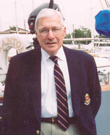 Dr. Sonnenblick poses by his boat.